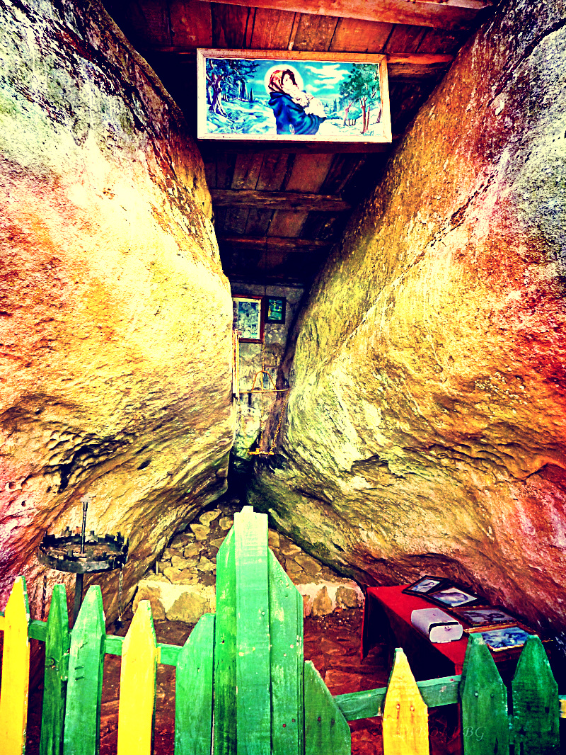 Lylatch_arch_shrine_Bulgaria